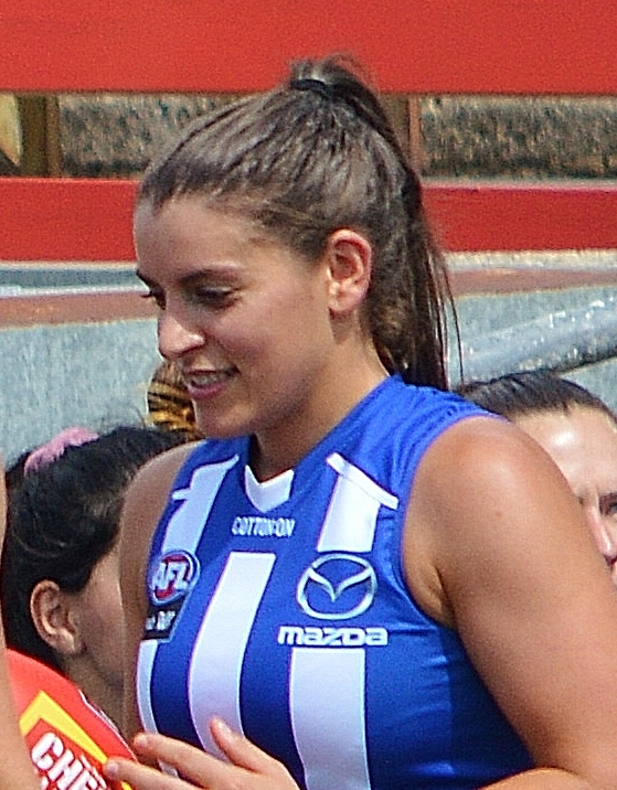 Ellie Gavalas with North Melbourne during the round 3, 2020 AFL Women's match against Richmond at Ikon Park.